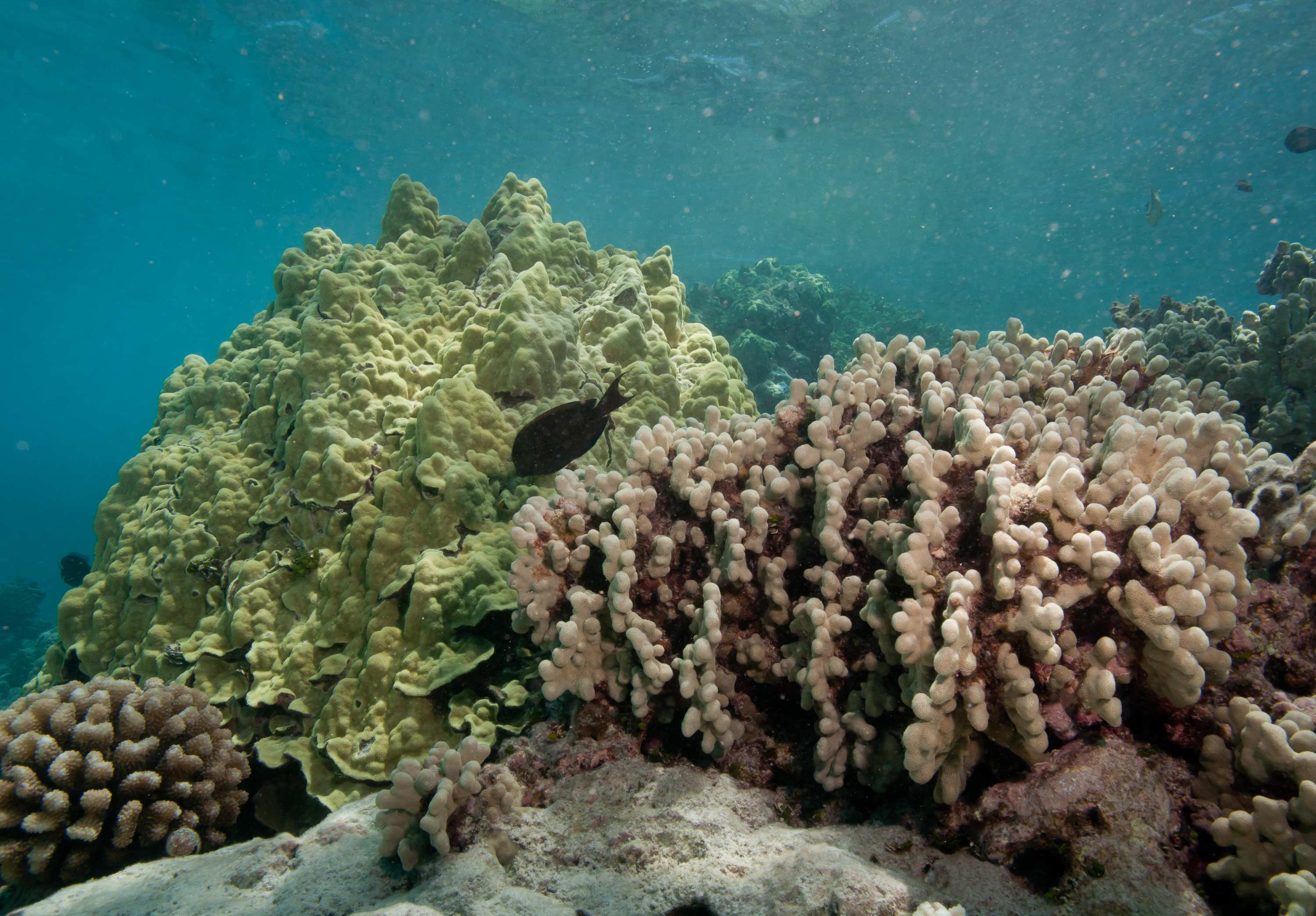 A typical coral reef assemblage within the Shark Island lagoon, French Frigate Shoals, including coral species from left to right: cauliflower coral (Pocillopora meandrina), lobe coral (Porites lobata), and finger coral (Porites compressa). Image credit: Lindsey Kramer/ USFWS